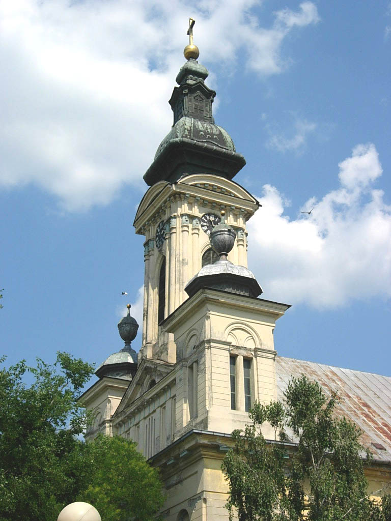 The Saint Michael the Archangel Catholic Church in Odžaci.